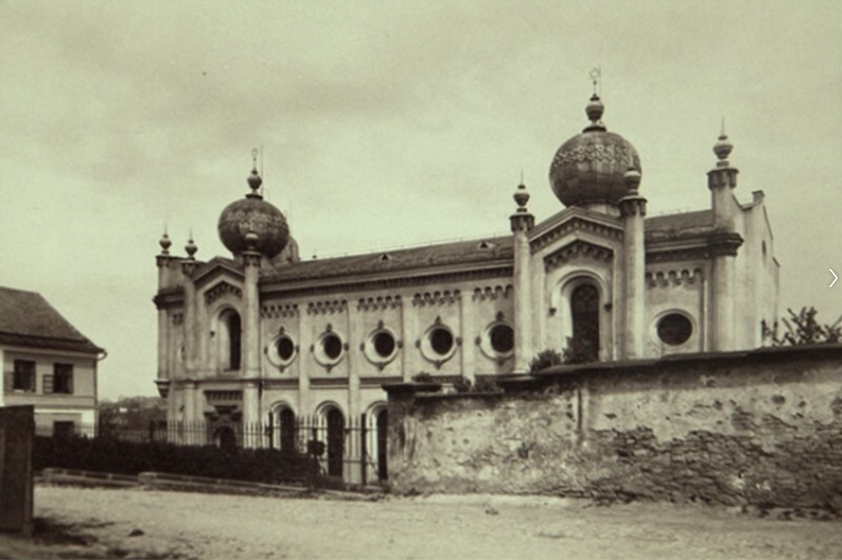 Synagogue in Cieszyn